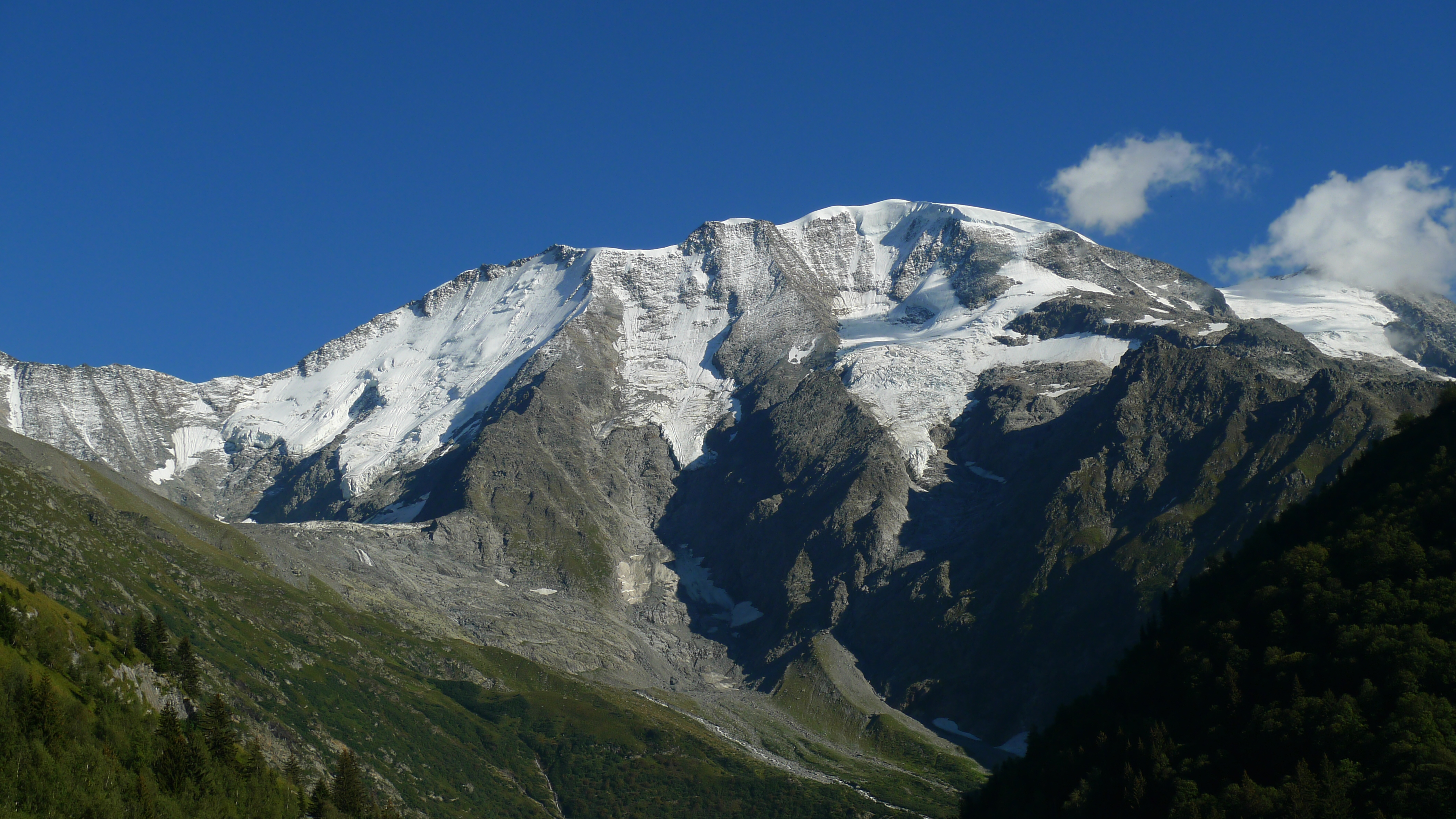 Dômes de Miage, from the Miage alpage